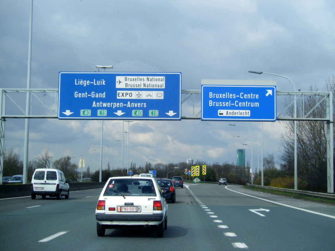 Directional Sign on the E40/E19 near Brussels, Belgium